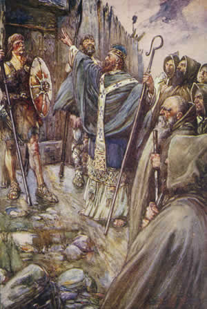 Columba banging on the gate of Bridei, son of Maelchon, King of Fortriu.